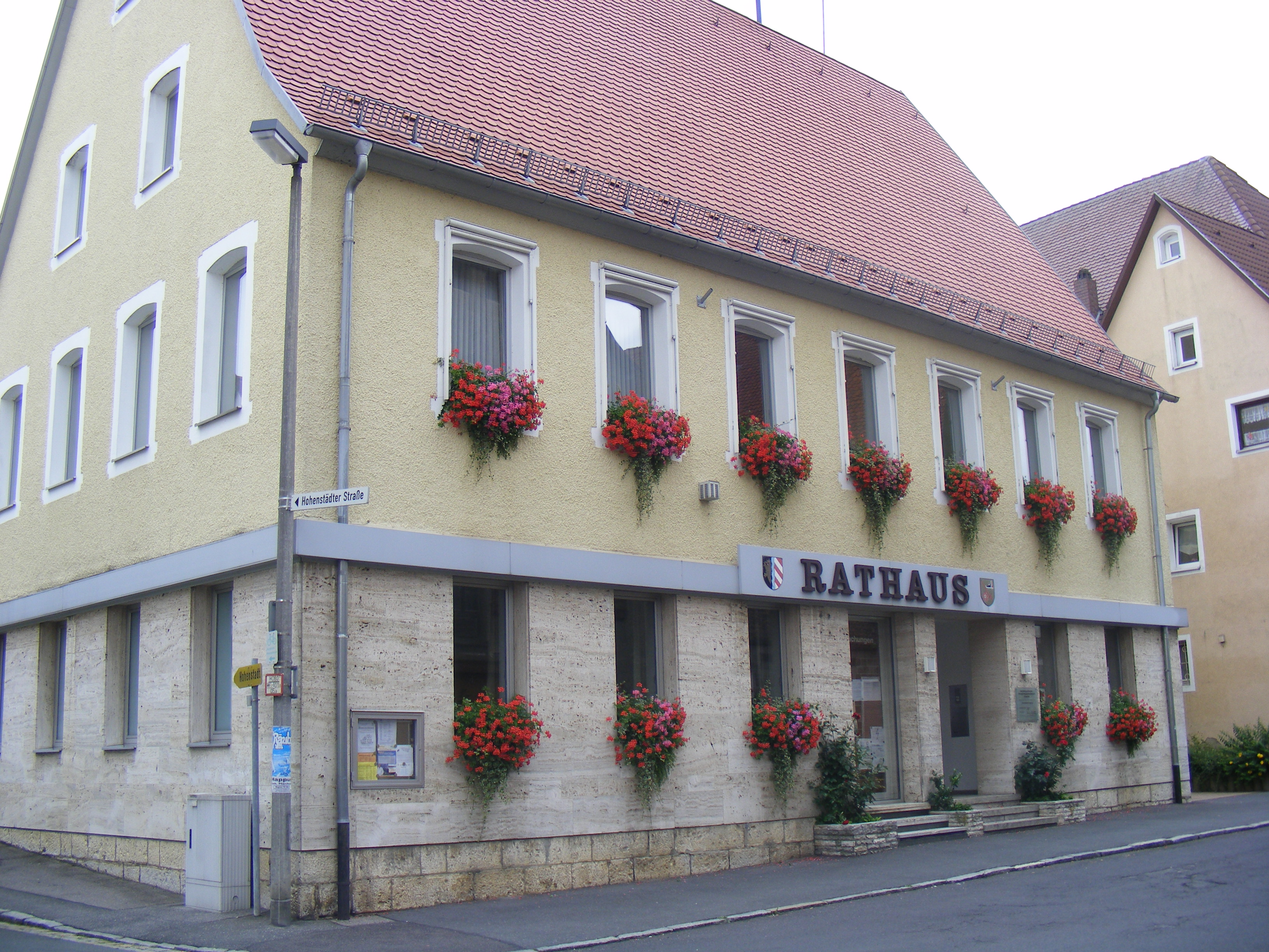 Townhall Happburg, Bavaria, Germany